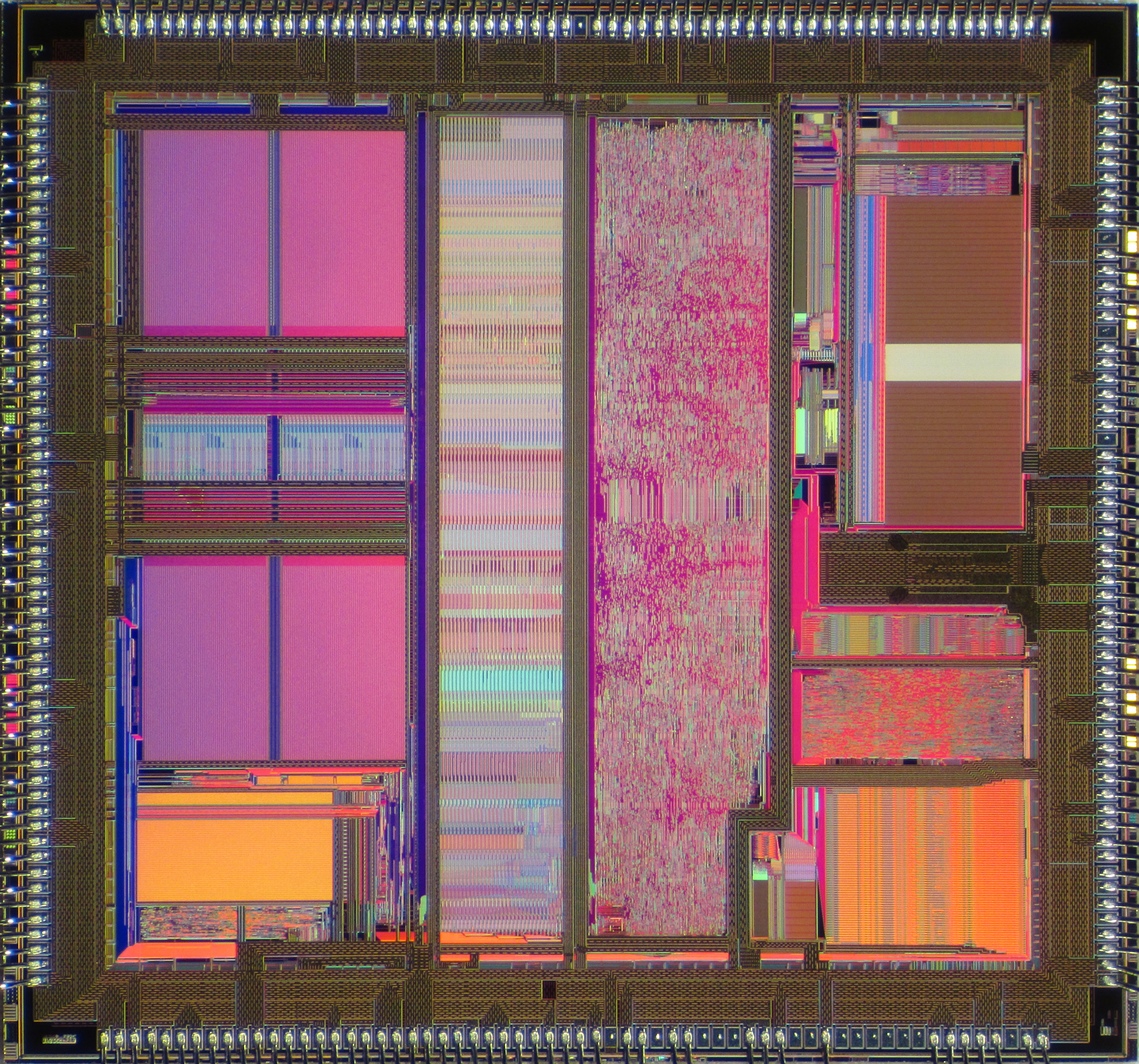 Die shot of AMD Am486 DX2-80 (A80486DX2-80 V8T).